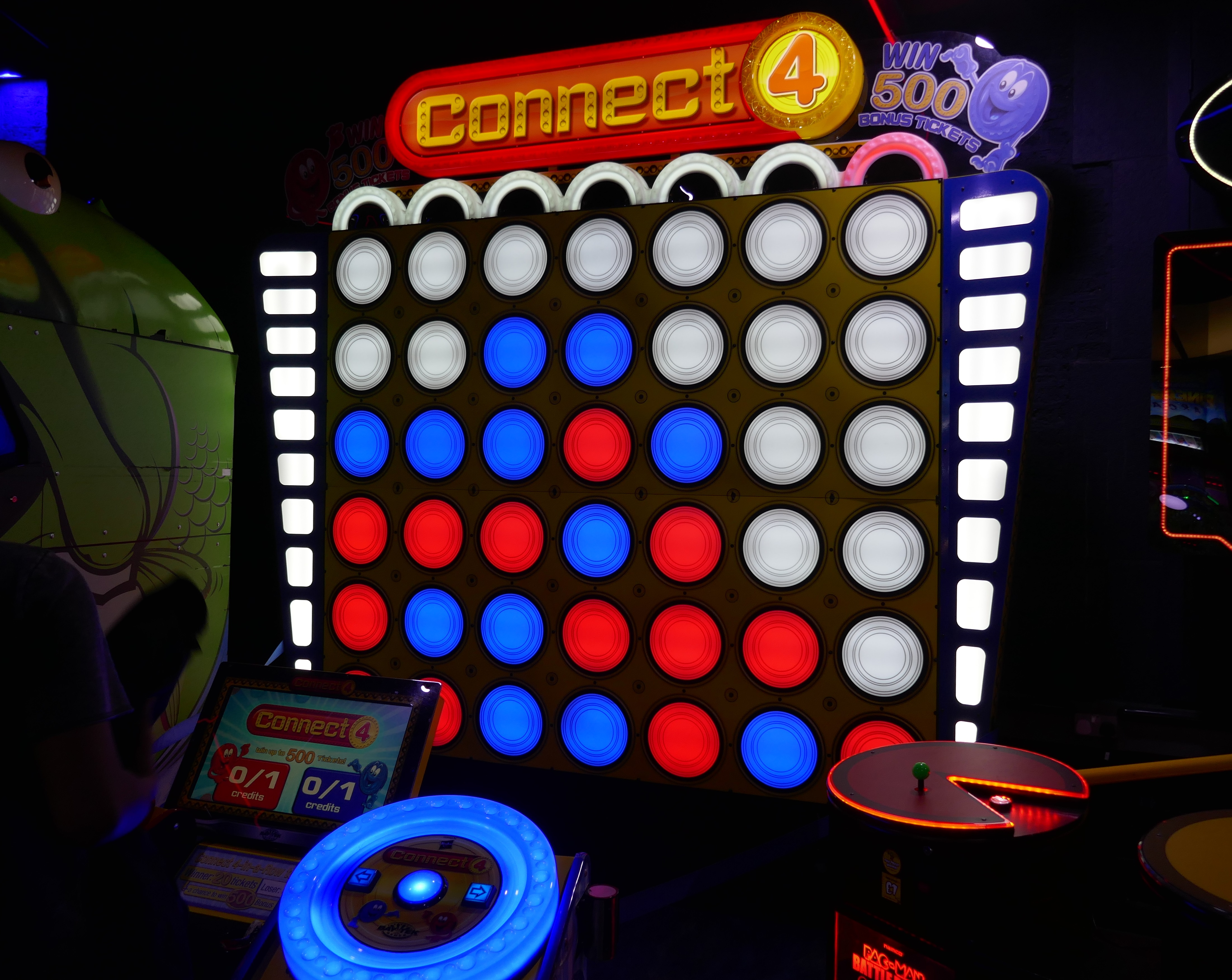 Connect 4 arcade game